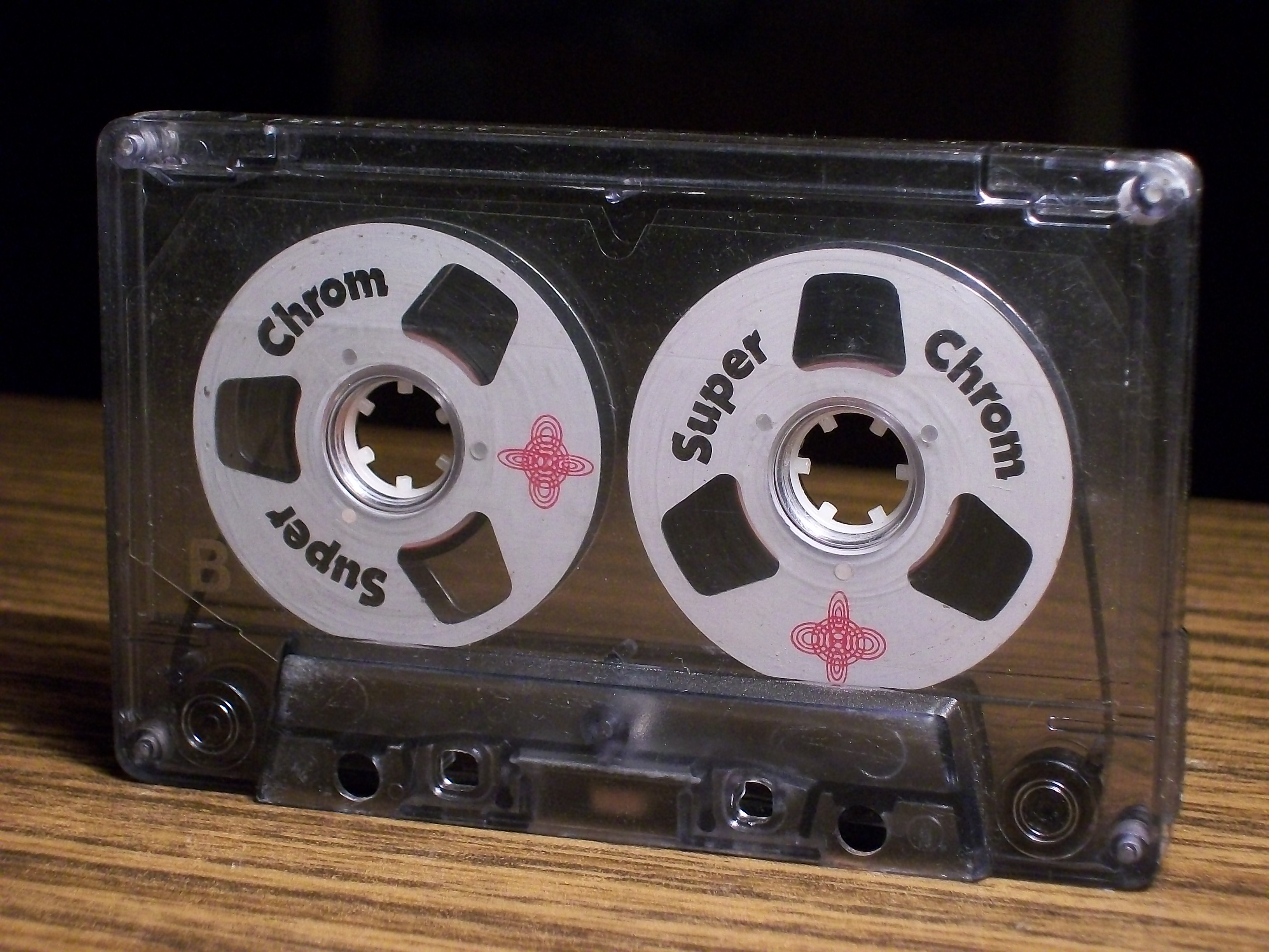 cassette